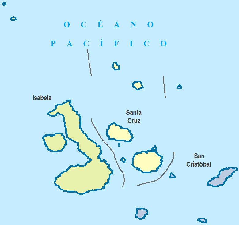 Cantons of Galapagos